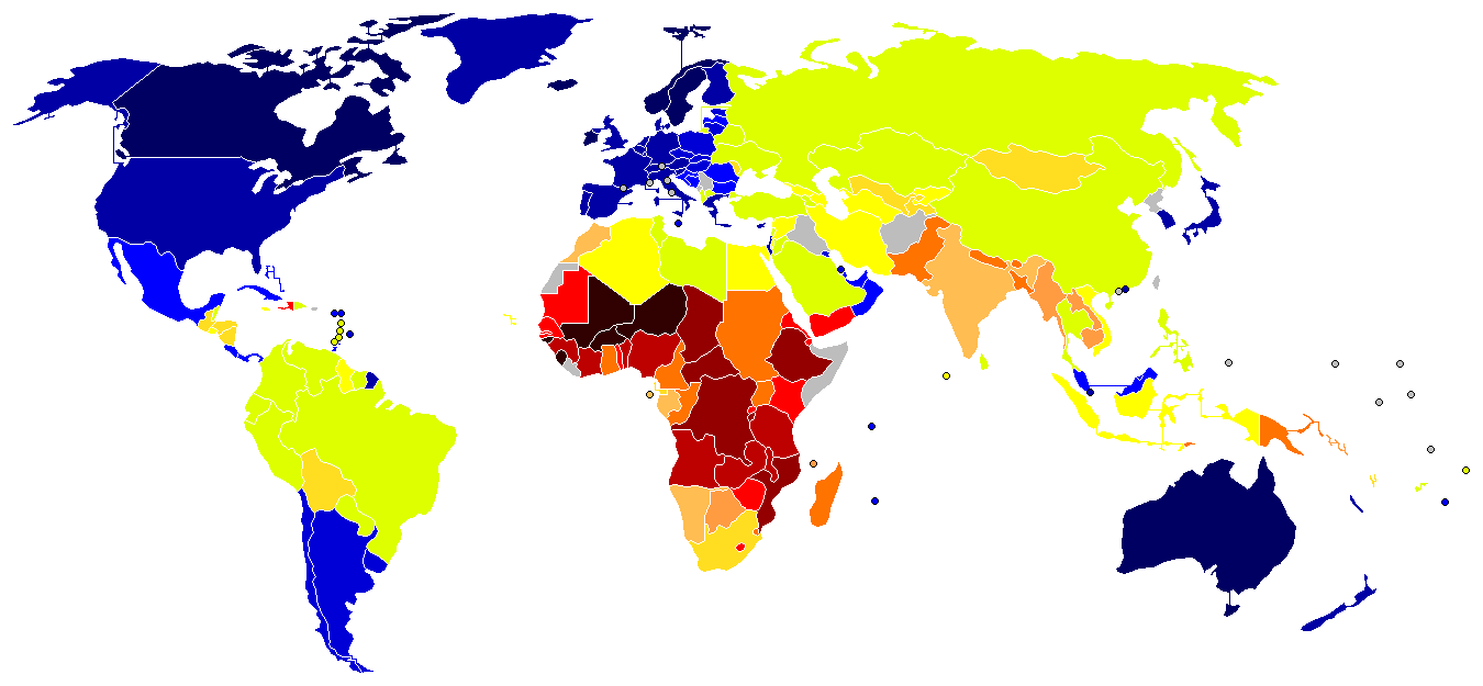 Adapted from :Image:HDImap spectrum2006.png (Public Domain) and modified by Andrew Oakley so that it is distinguishable by people that have red-green colour vision deficiency.